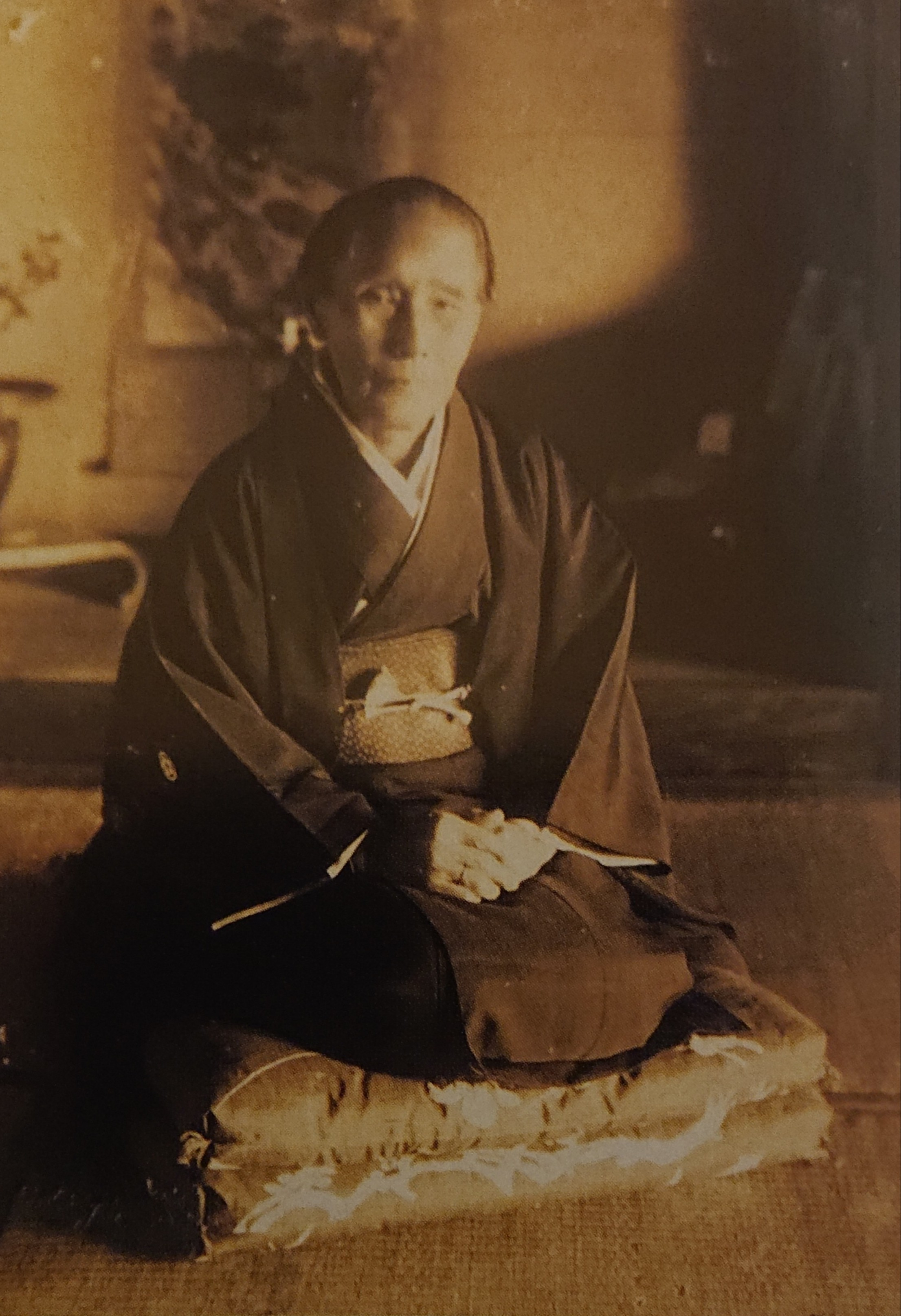 The photograph of Iwayama Toku.